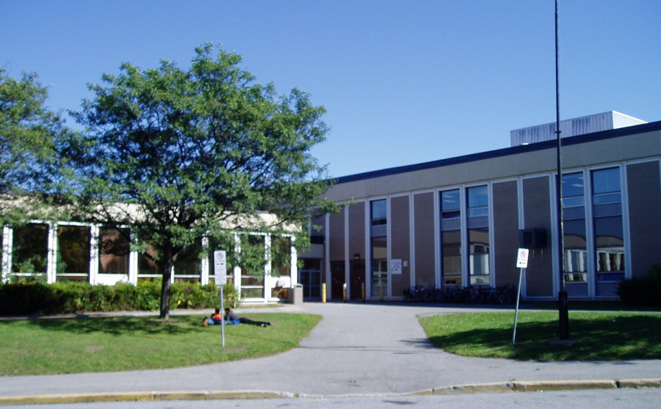 Canterbury High School. Taken by SimonP